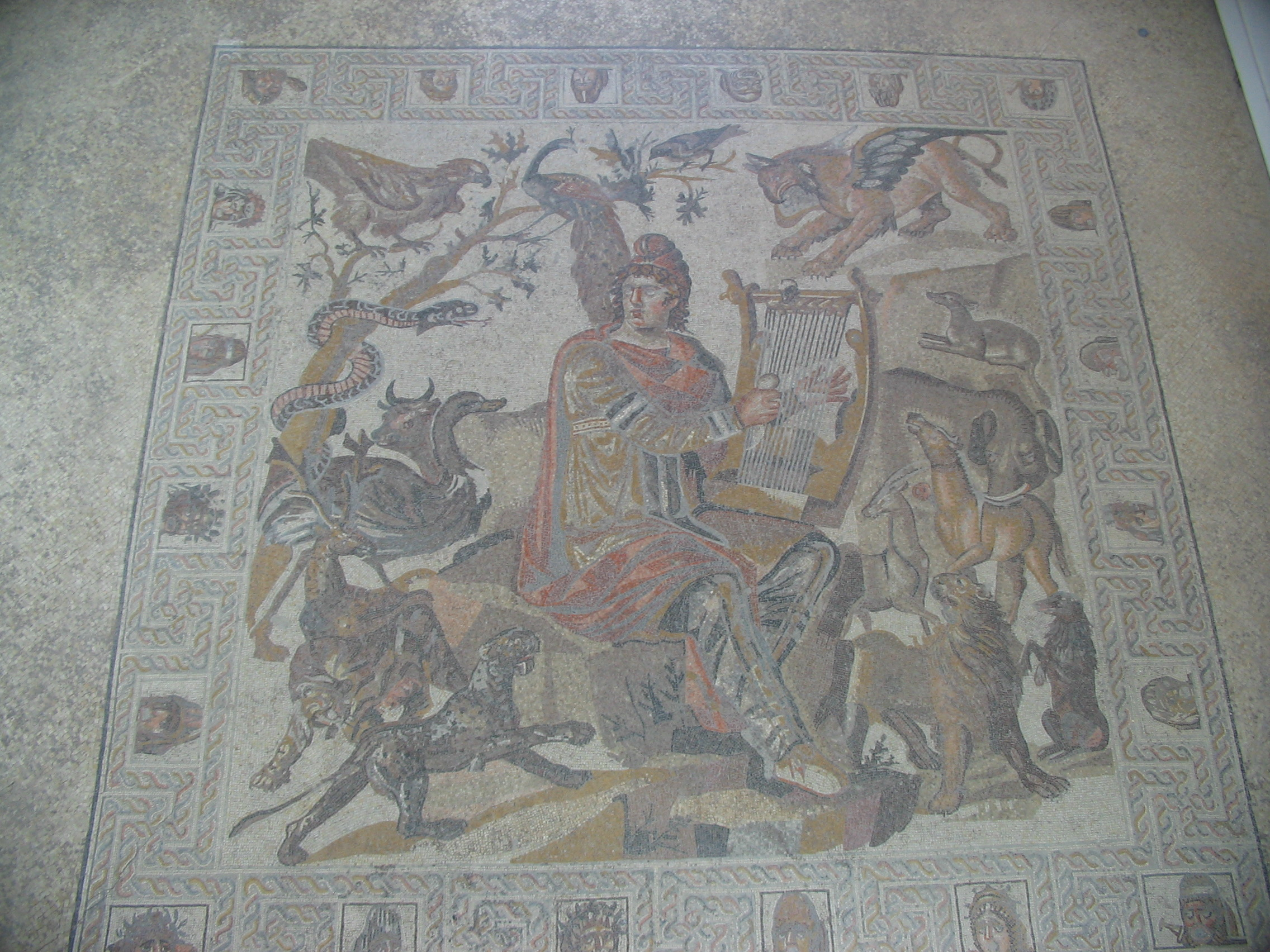 Roman mosaic, Philippopolis in 2006